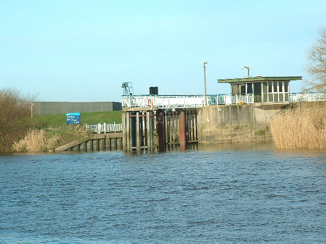 Barmby on the Marsh, East Riding of Yorkshire, England, Tidal Barrage at the mouth of the River Derwent.The barrage is to stop polluted water from the River Ouse getting into the River Derwent. Water is pumped out of the River Derwent at Loftsome Bridge water treatment plant. The water is treated to remove impurities and is used to feed the surrounding district, and feed into the water grid system.